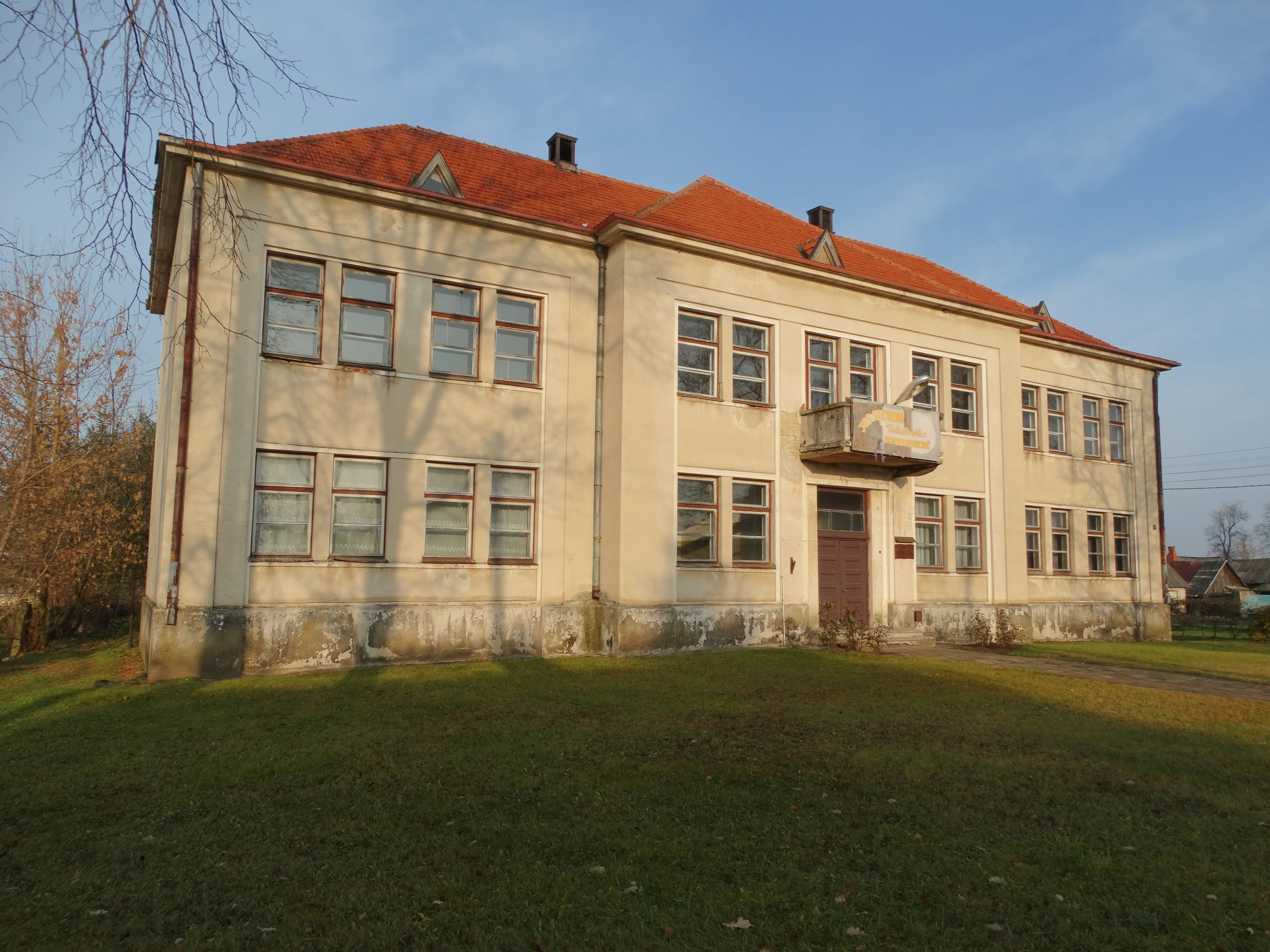 Former school, Vabalninkas, Lithuania